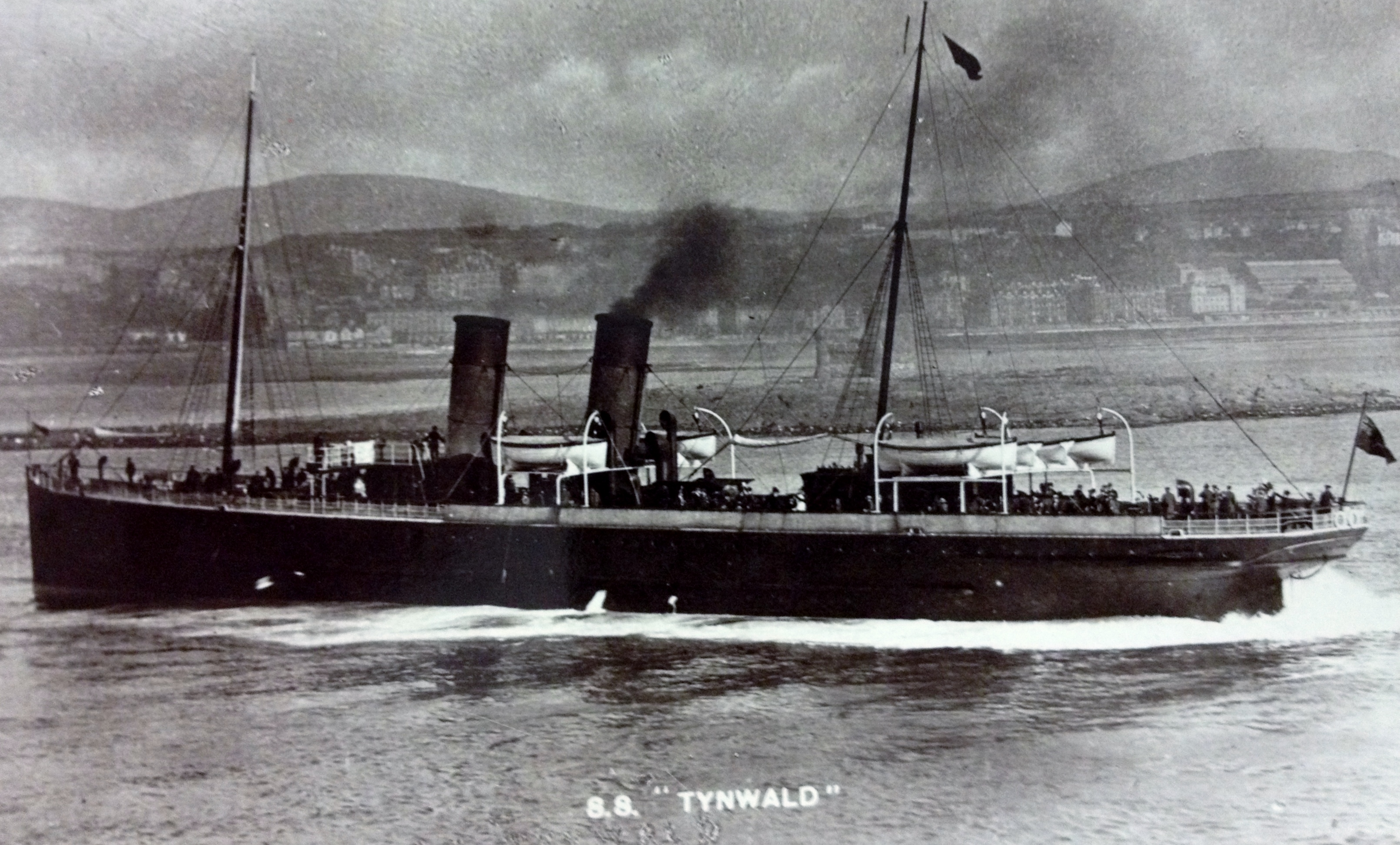 Tynwald leaves her home port, Douglas.